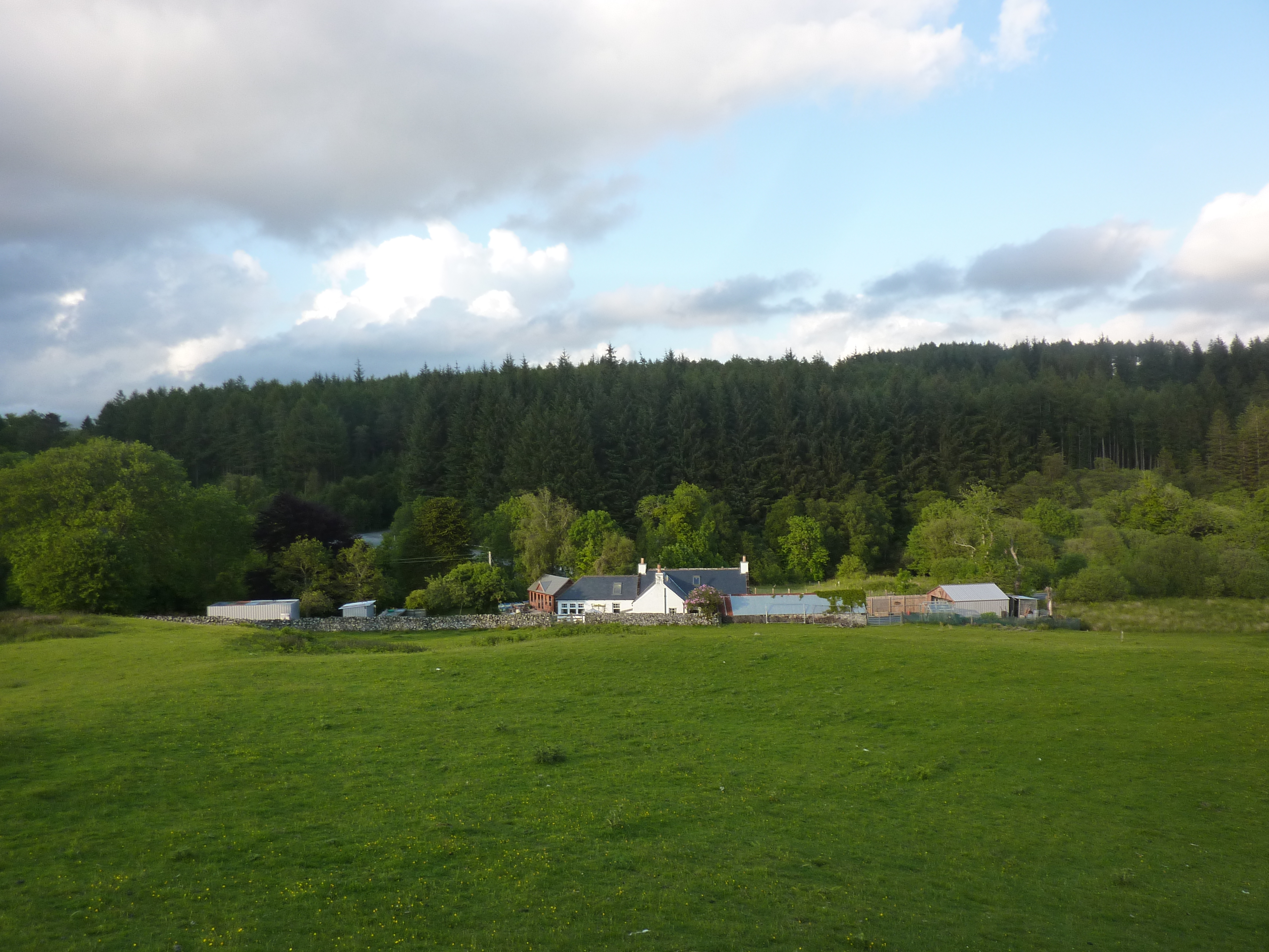 Finally in sight! Sadly the campsite was a further half a mile up the road. By now I was absolutely knackered. Day 3 on the Southern Upland Way blogged about at .uk/southernuplandway/day3